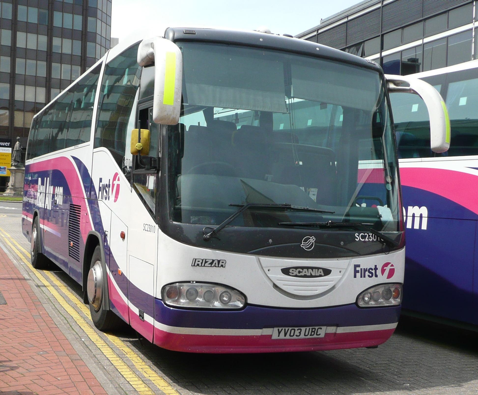 A First Berkshire & The Thames Valley coach in Reading on the RailAir service to Heathrow Airport. Irizar InterCentury or Century.